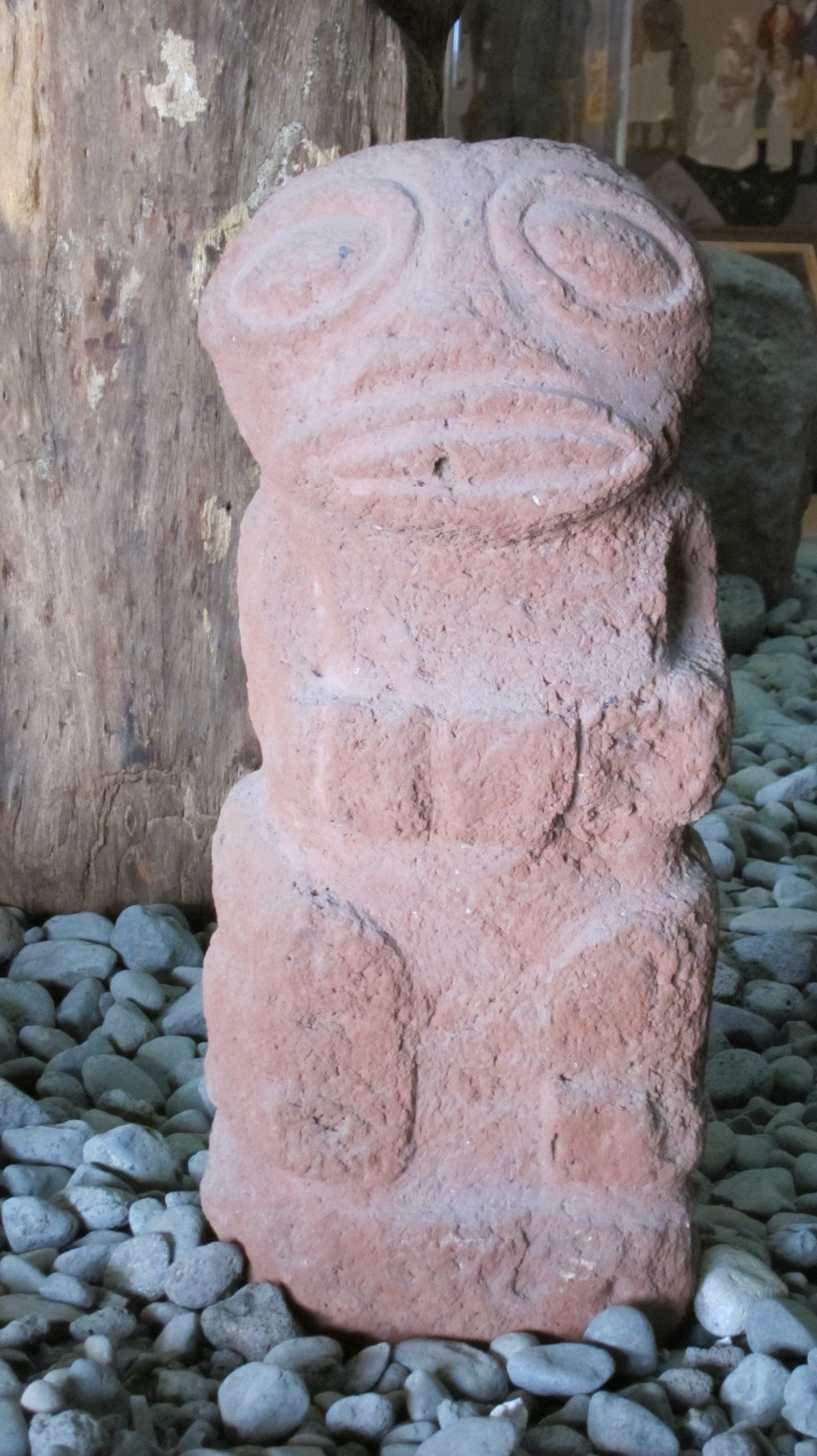 Human image, tuff, Marquisas, Musée de Tahiti et des Îles